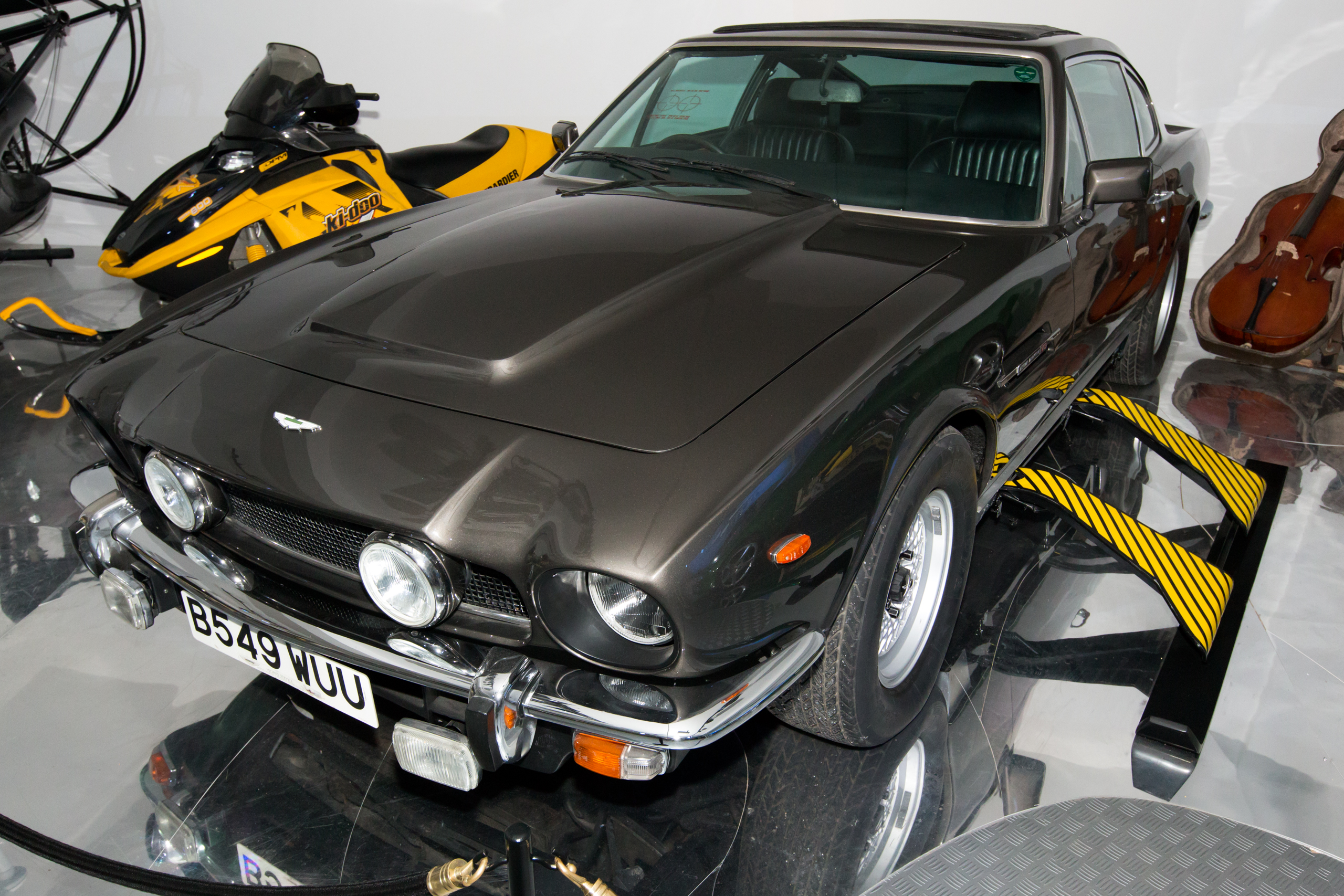 Aston Martin V8 Volante, from "The Living Daylights" (1987)